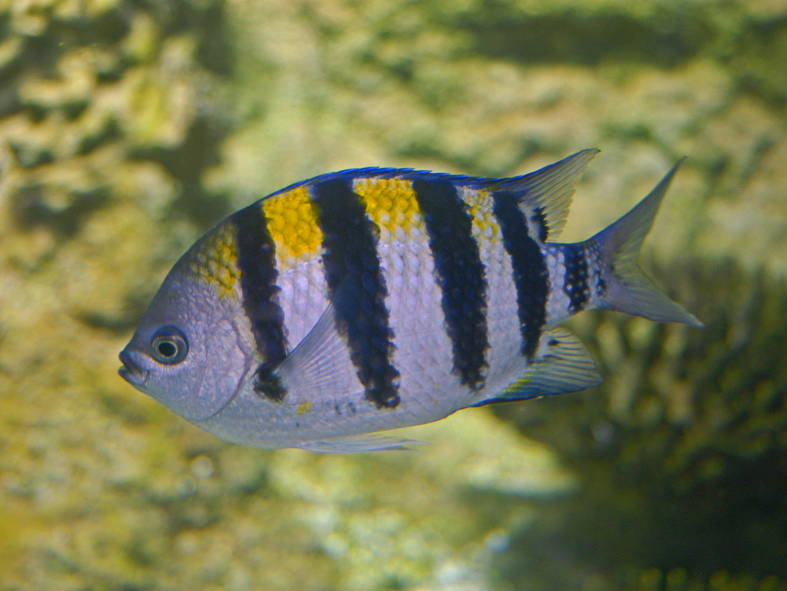 Abudefduf troschelii. On display at the Aquarium of Genova, Italy